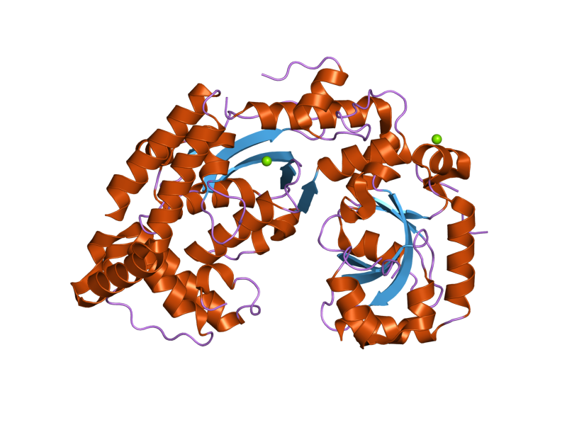 Cartoon representation of the molecular structure of protein registered with 3c94 code.